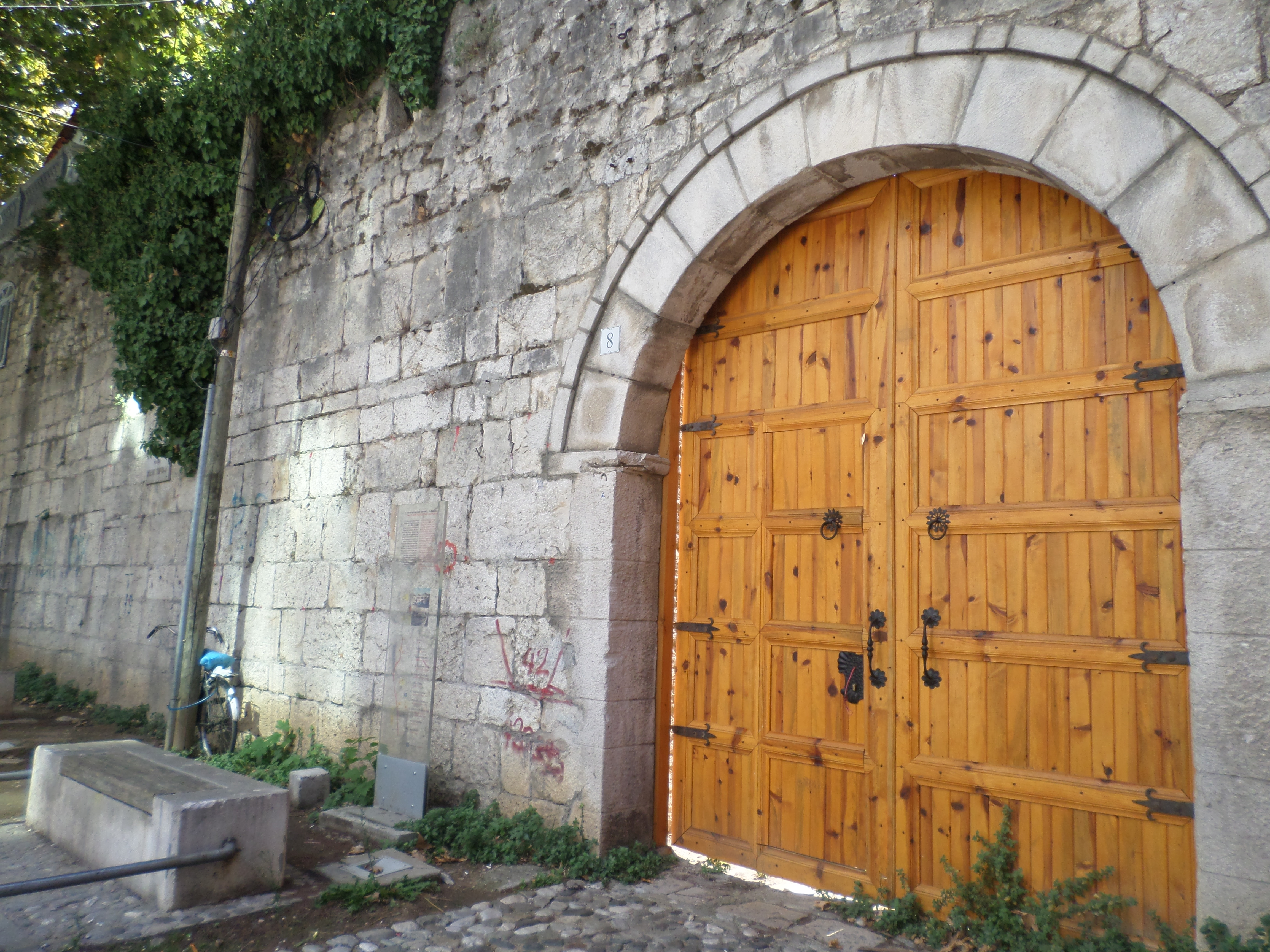 Castle Tirana